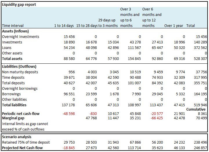 Illustrative example of liquidity gap report and cash-flow projection